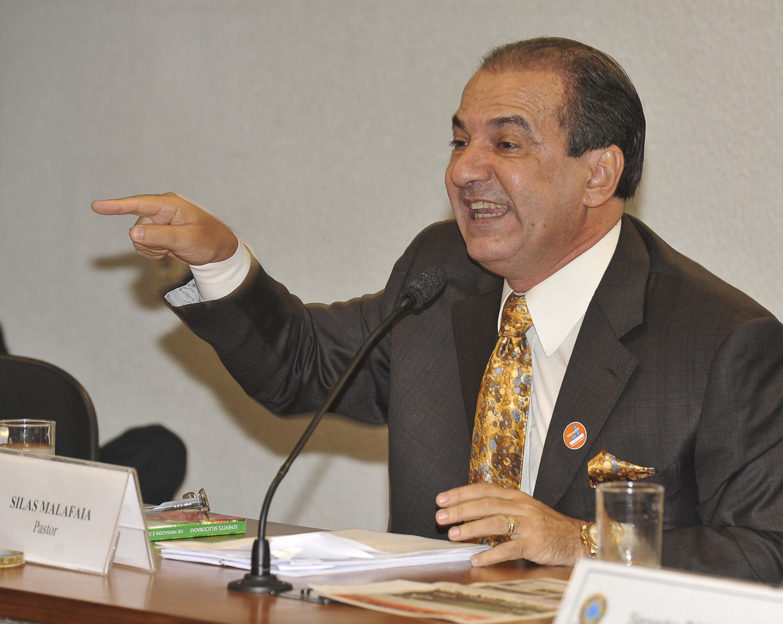 Brasília - The minister Silas Malafaia during a public hearing at the Commission for Human Rights and Participative Legislation Senate Rights to discuss the bill the House that establishes penalties for those who discriminate against homosexuals.